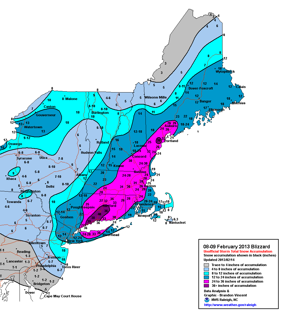 February 08-09, 2013 Blizzard Storm Total Snow Accumulation